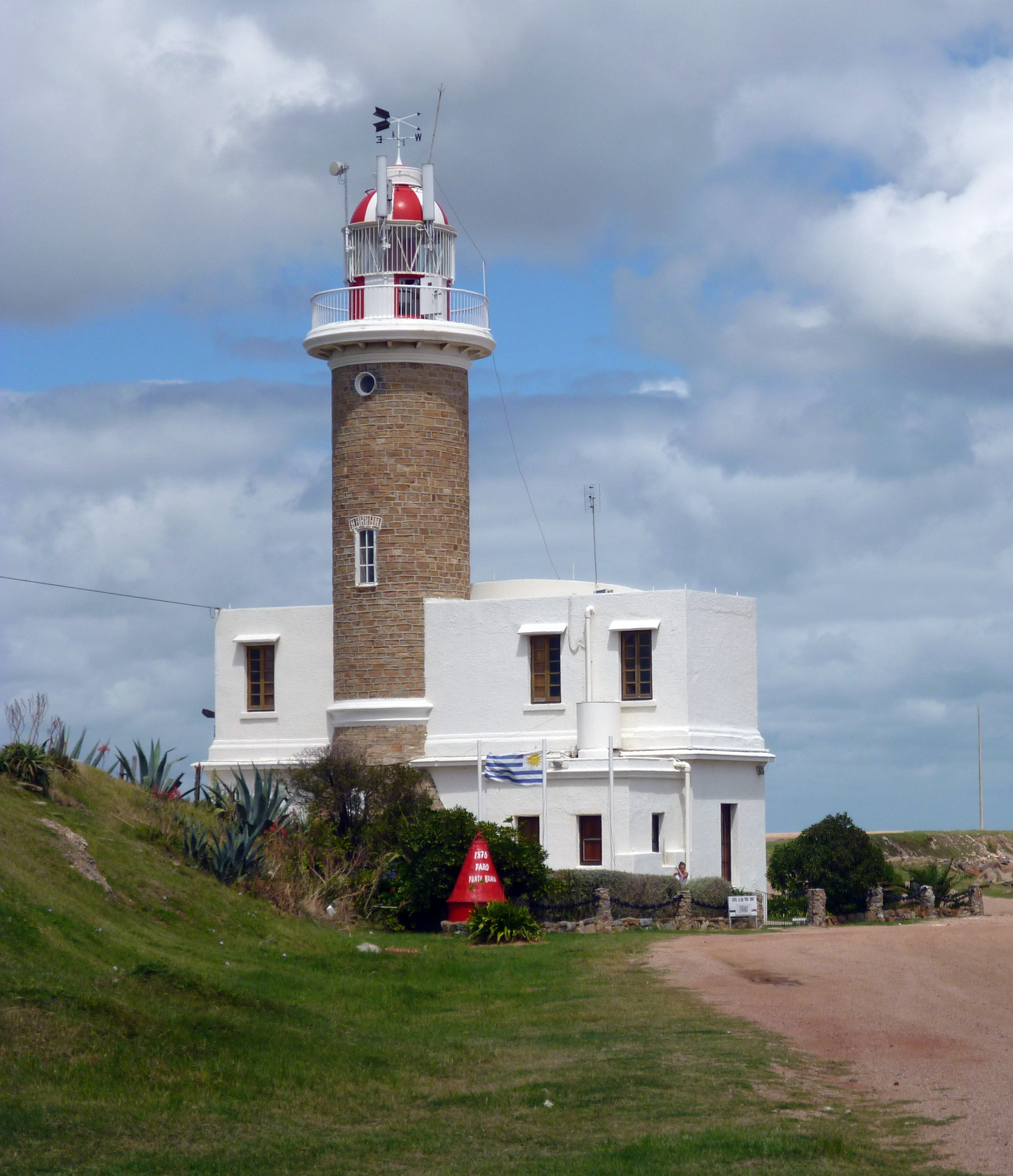 Punta Brava lighthouse, Montevideo